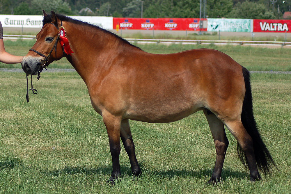 11-year-old Gotland Pony mare, a 1st prize broodmare, at a 2009 Gotland Russ show, Turku. 1st prize, Best Mare, and Best In Show II.